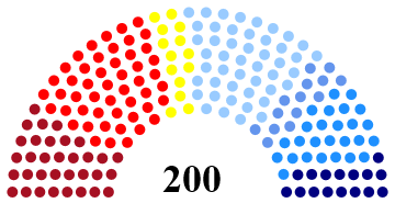 A map of the parliament of Czech Republic after 2013 election